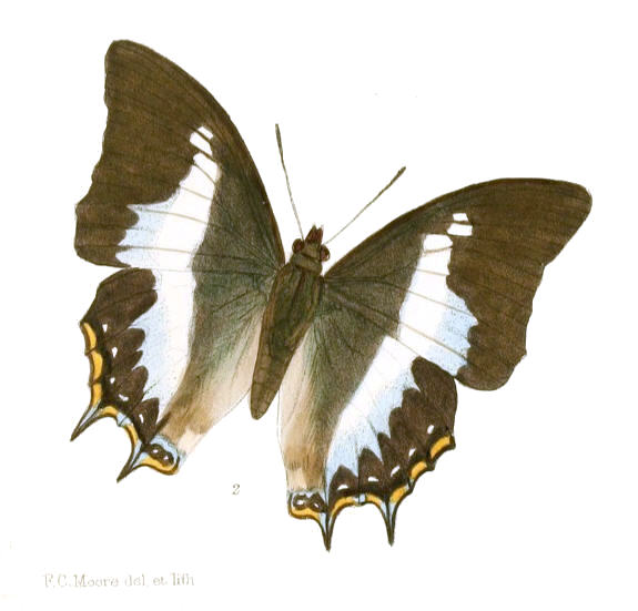 Eulepis wardii